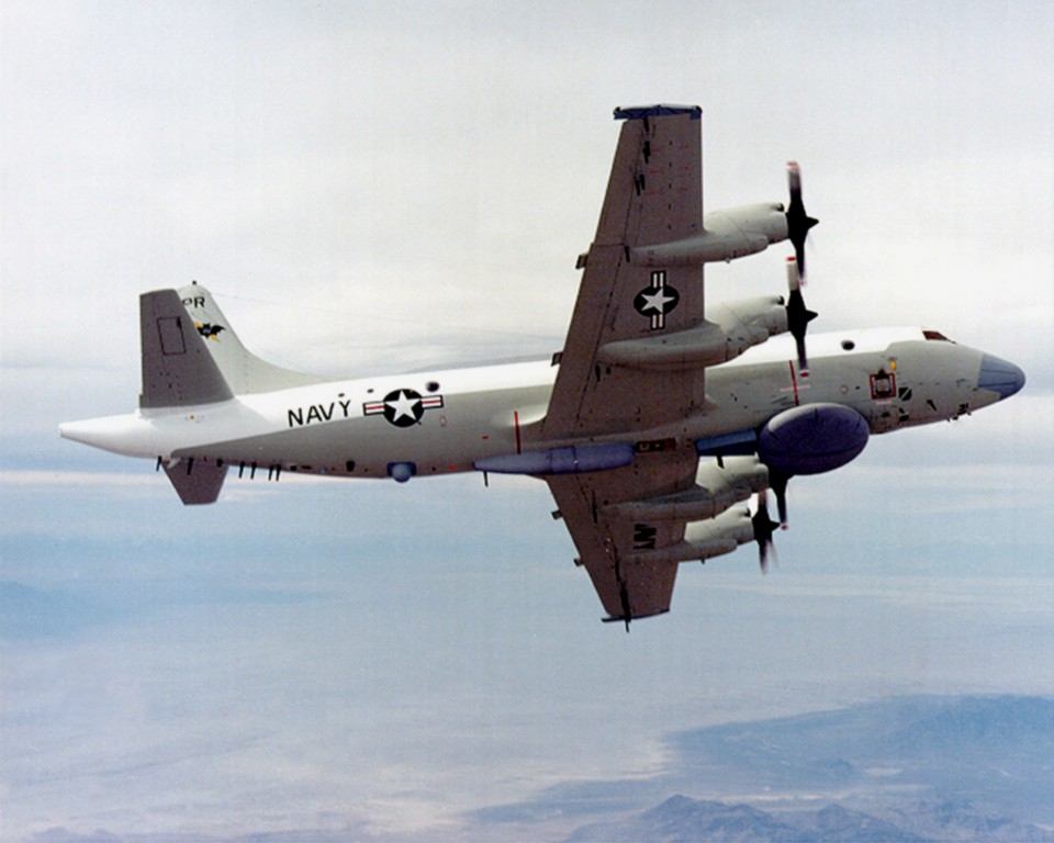 A U.S. Navy Lockheed EP-3E Aries II surveillance aircraft of electronic reconnaissance squadron VQ-1 in flight, ca. 2006.